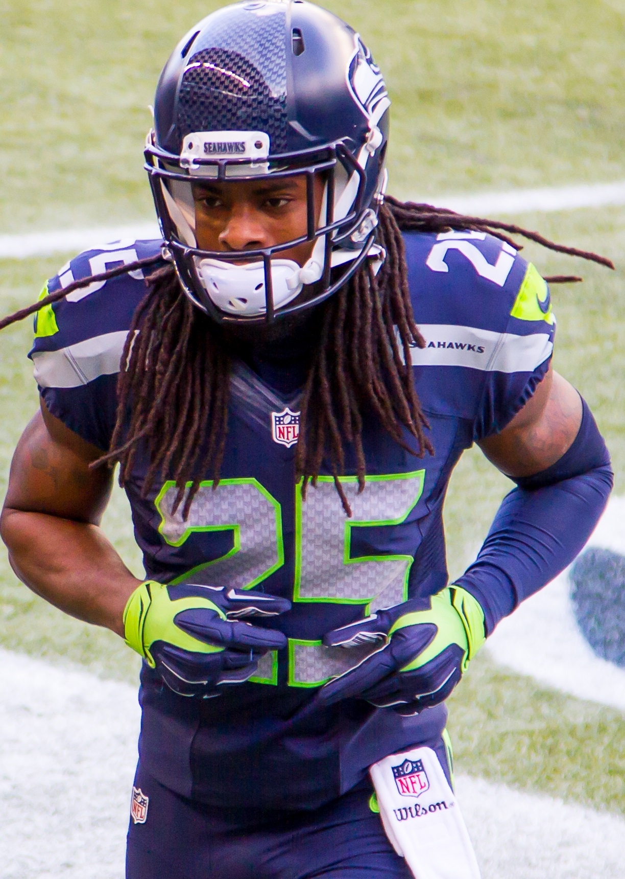 2015 preseason